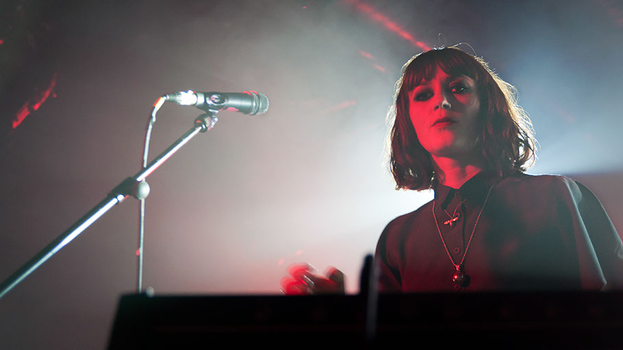 Ladytron live at the Arches, Glasgow on Thurs 9th June 2011. To see what's on at the Arches go to Image: Claire Thomson.